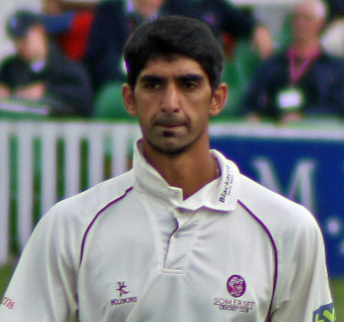 Gemaal Hussain profile image, taken at the County Ground, Taunton during day one of the County Championship match between Somerset and Warwickshire.